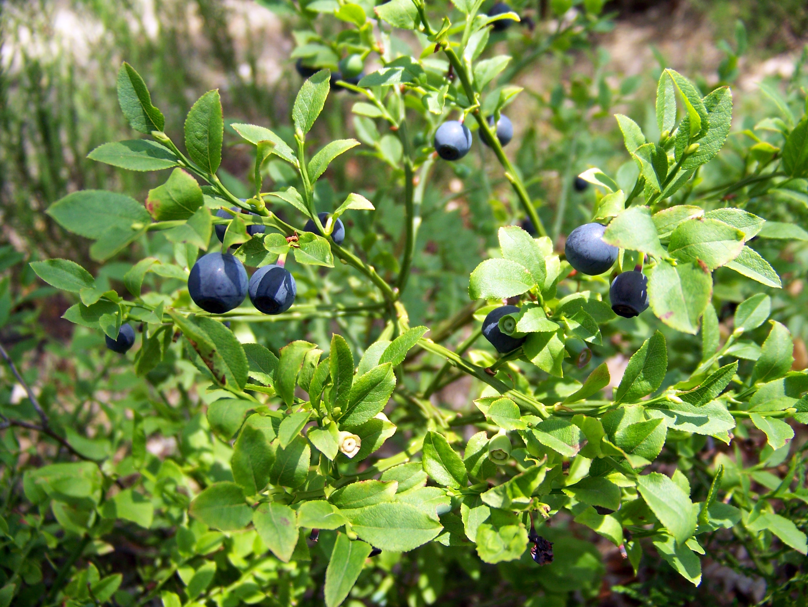 Bilberries (Vaccinium myrtillus) growing inside the canyon ‘Großer Zschand’ at the Saxon Switzerland, Germany.